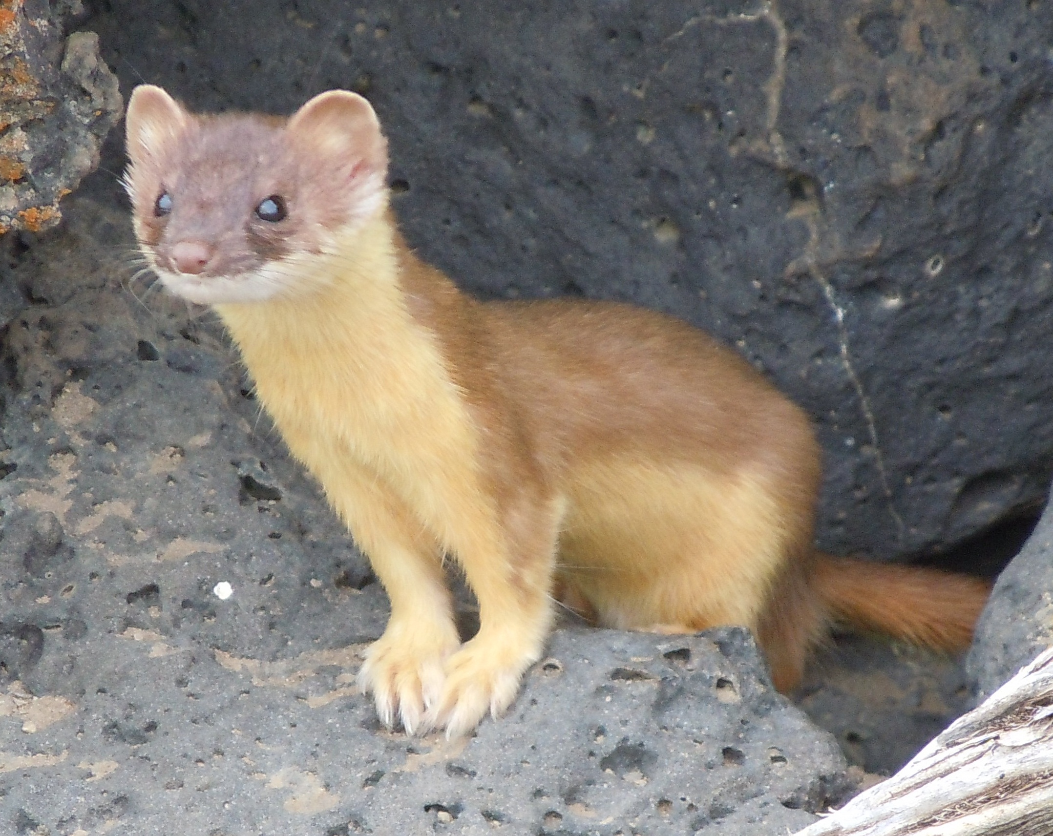 Mustela frenata watches from a lava rock outcrop that borders a green strip of Agropyron cristatum along Lincoln Blvd.